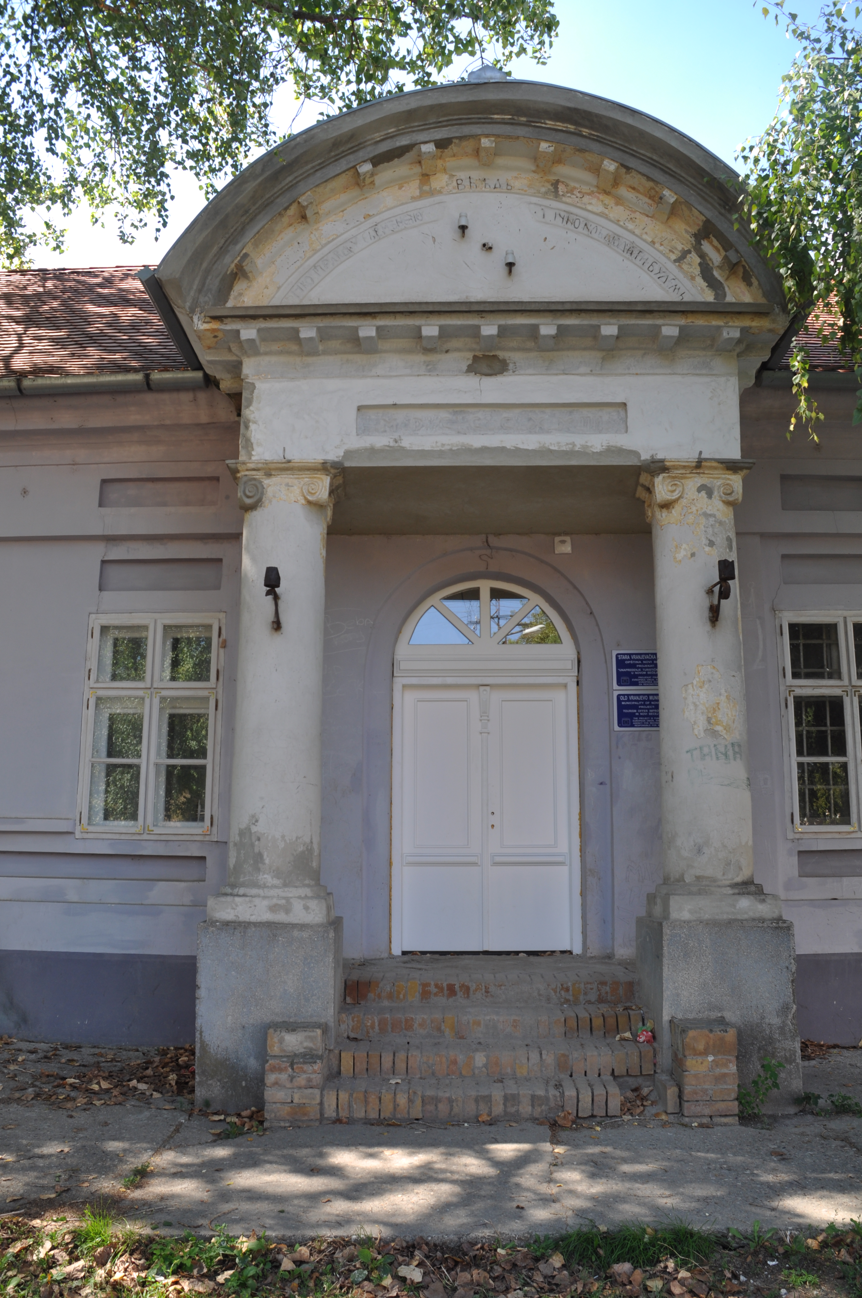 Old municipal building in Vranjevo - portico